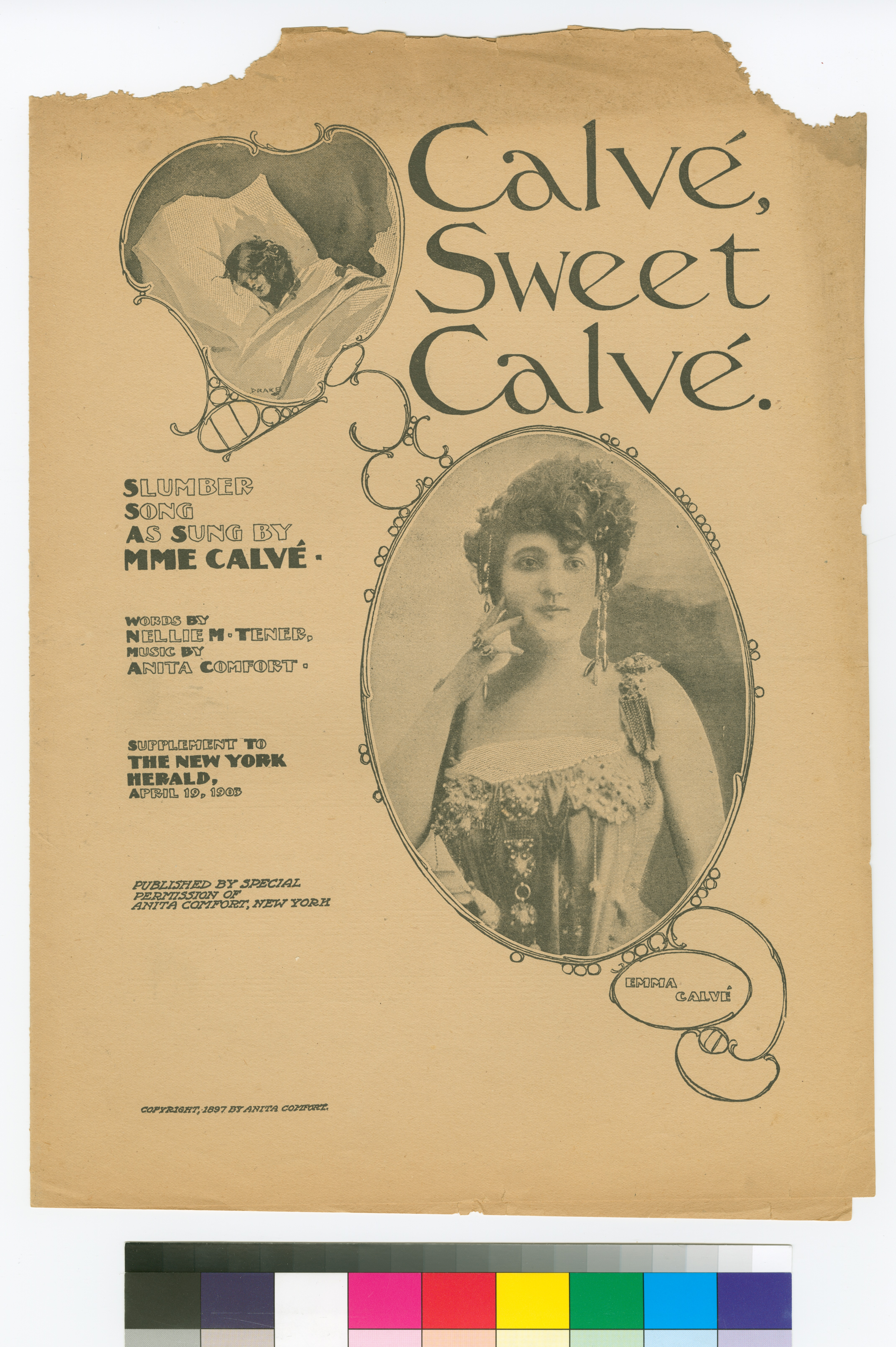 On cover: Slumber song as sung by Mme Calvé. Cover includes photograph of Emma Calvé. Published as a supplement to the New York Herald, April 19, 1903. Statement of responsibility : words by Nellie M. Tener ; music by Anita Comfort.